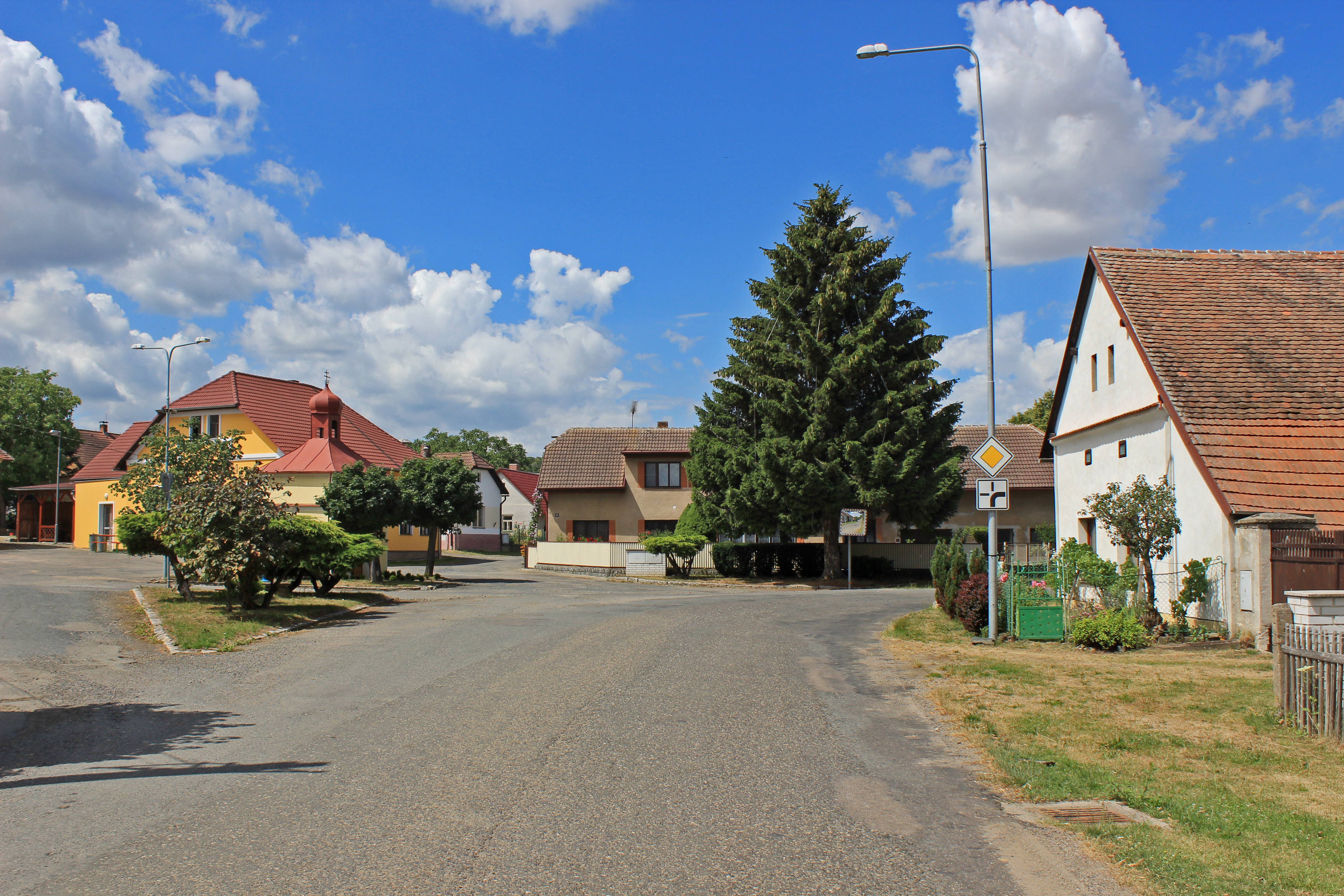 Common in Souňov, Czech Republic.